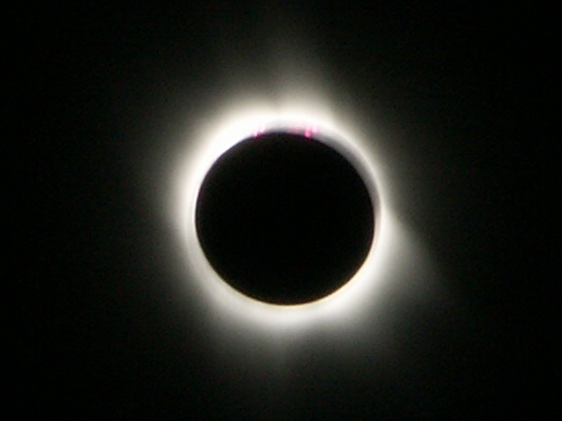 This is self-made photo of Solar eclipse 2006 in Lagan, Kalmykia, Russia.